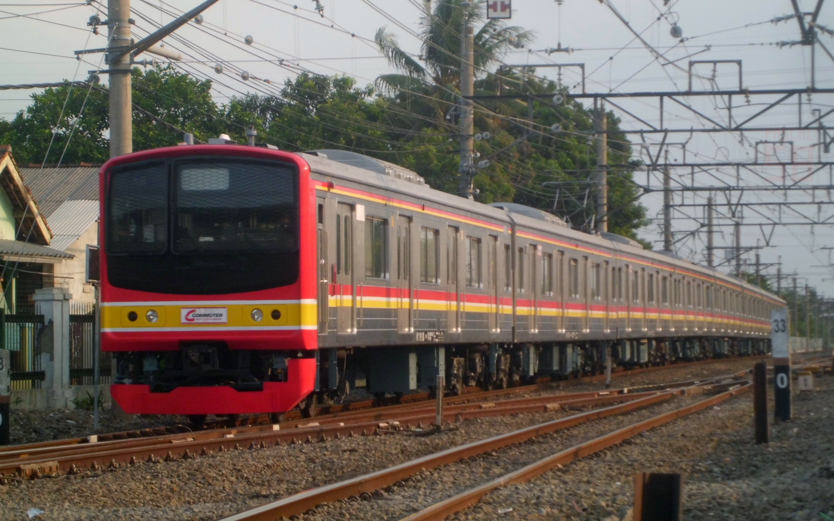 Fairy-tale face 8-car 205 series BUD148 set arriving in Depok station in Indonesia, October 2019